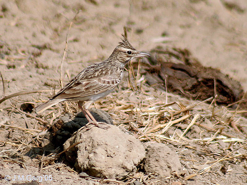 Crested Lark (Galerida cristata) at Hodal in Faridabad District of Haryana, India.